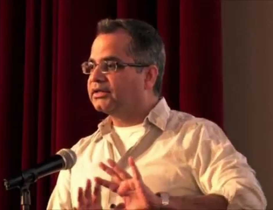 Vivek Chibber speaking at the 8th Subversive Film Festival "Spaces of Emancipation: Micropolitics and Rebellions" on 14th May 2015, 19h, Cinema Europa, Zagreb, Croatia.